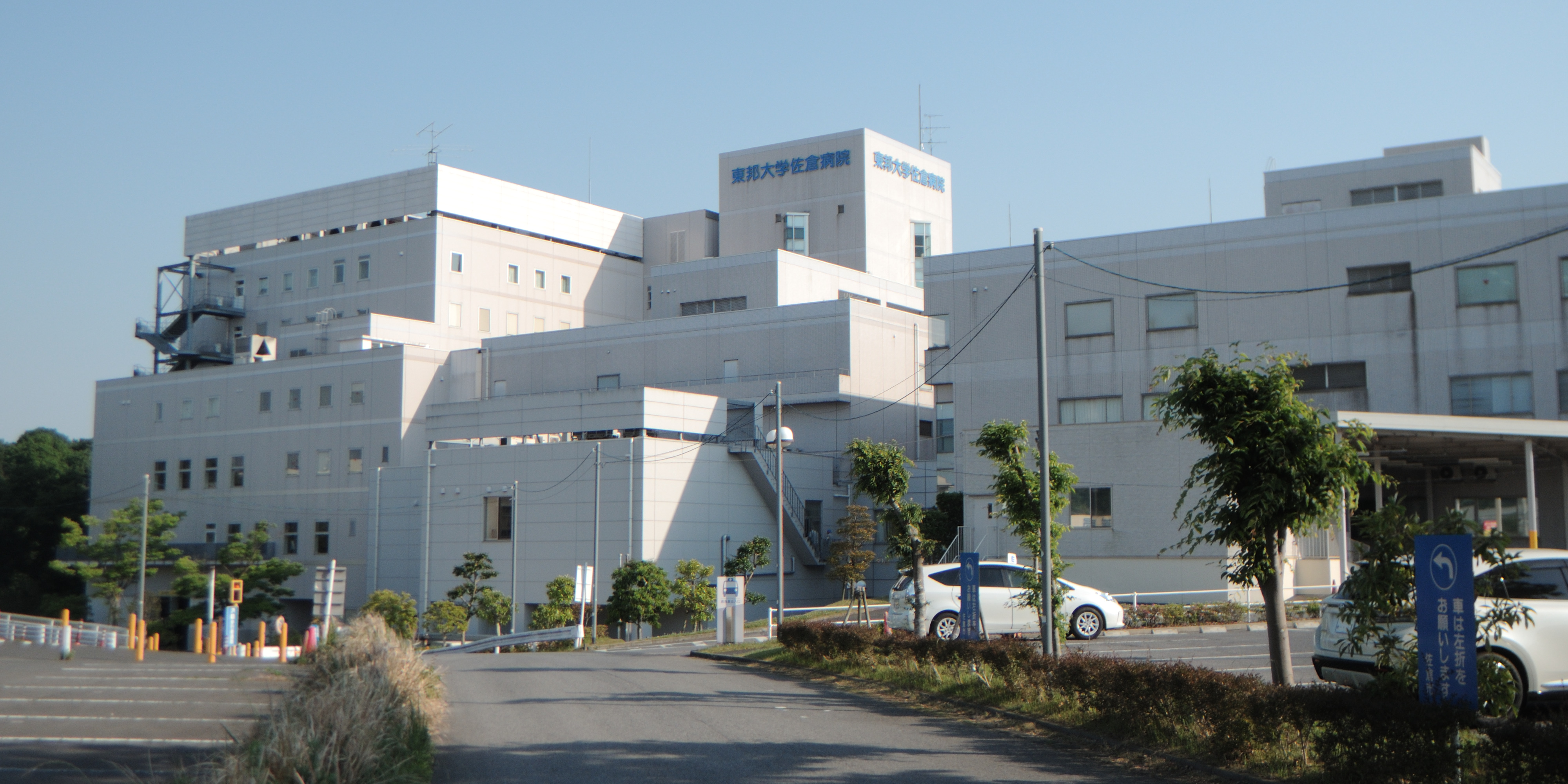 Toho University Medical Center Sakura Hospital (Sakura, Chiba, Japan)